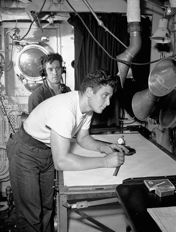 Radar plotters Able Seamen William Ewasiuk and Harry Henderson of the destroyer HMCS Iroquois, at sea. They played a key role in a five-hour surface action in which eight German ships were destroyed or damaged while attempting to leave St. Nazaire, France.